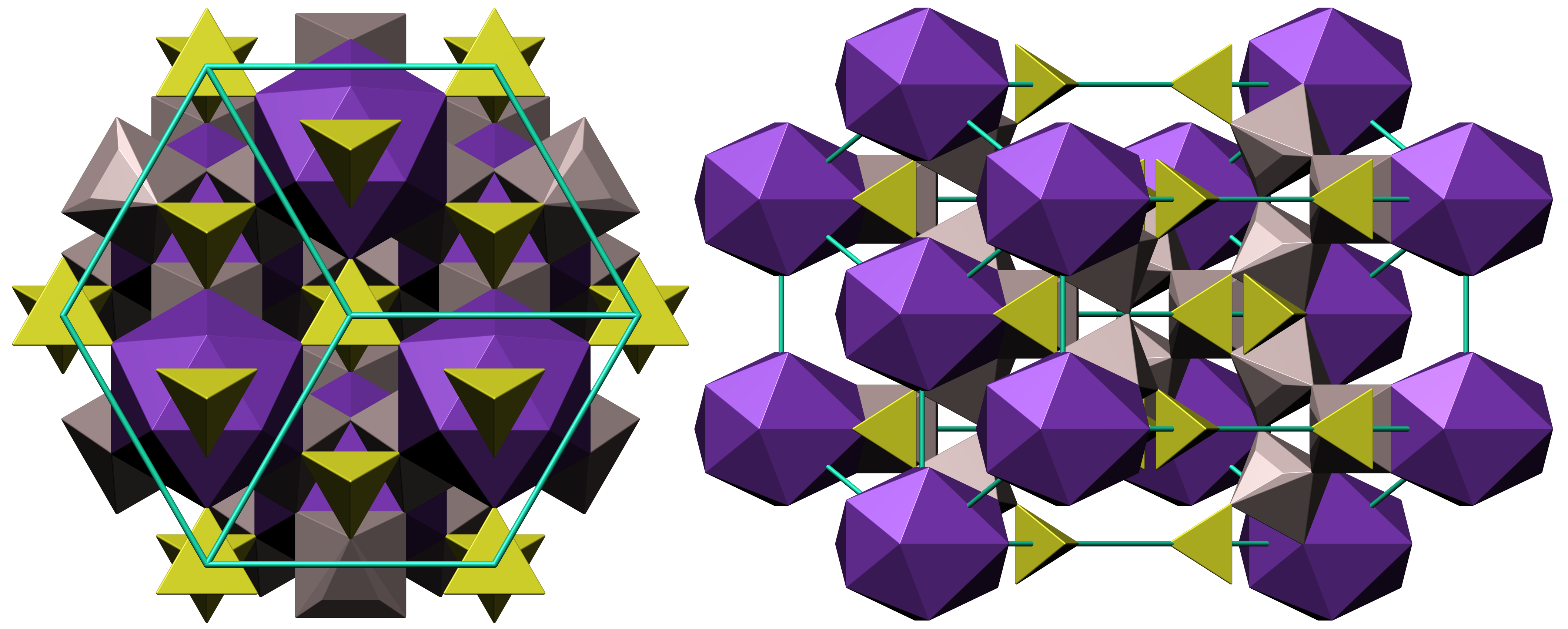 Crystal structure of alunite - KAl3(SO4)2(OH)6. Schukow H, Breitinger D K, Zeiske T, Kubanek F, Mohr J, Schwab R G Colour code: Potassium, K: indigo Sulfur, S: olive Aluminum, Al: wenge Cell: blue-green